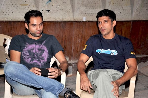 Abhay Deol and Farhan Akhtar promote Zindagi Na Milegi Dobara at UTV event